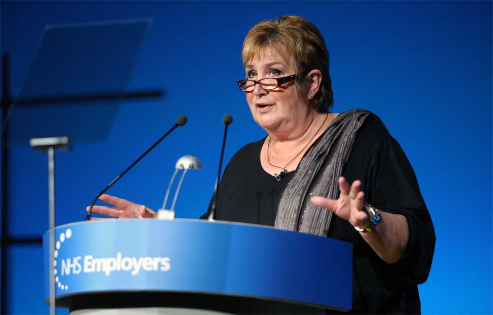 Jenni Murray speakeing at 'NHS Employers annual conference and exhibition 2011, Delivering change together'